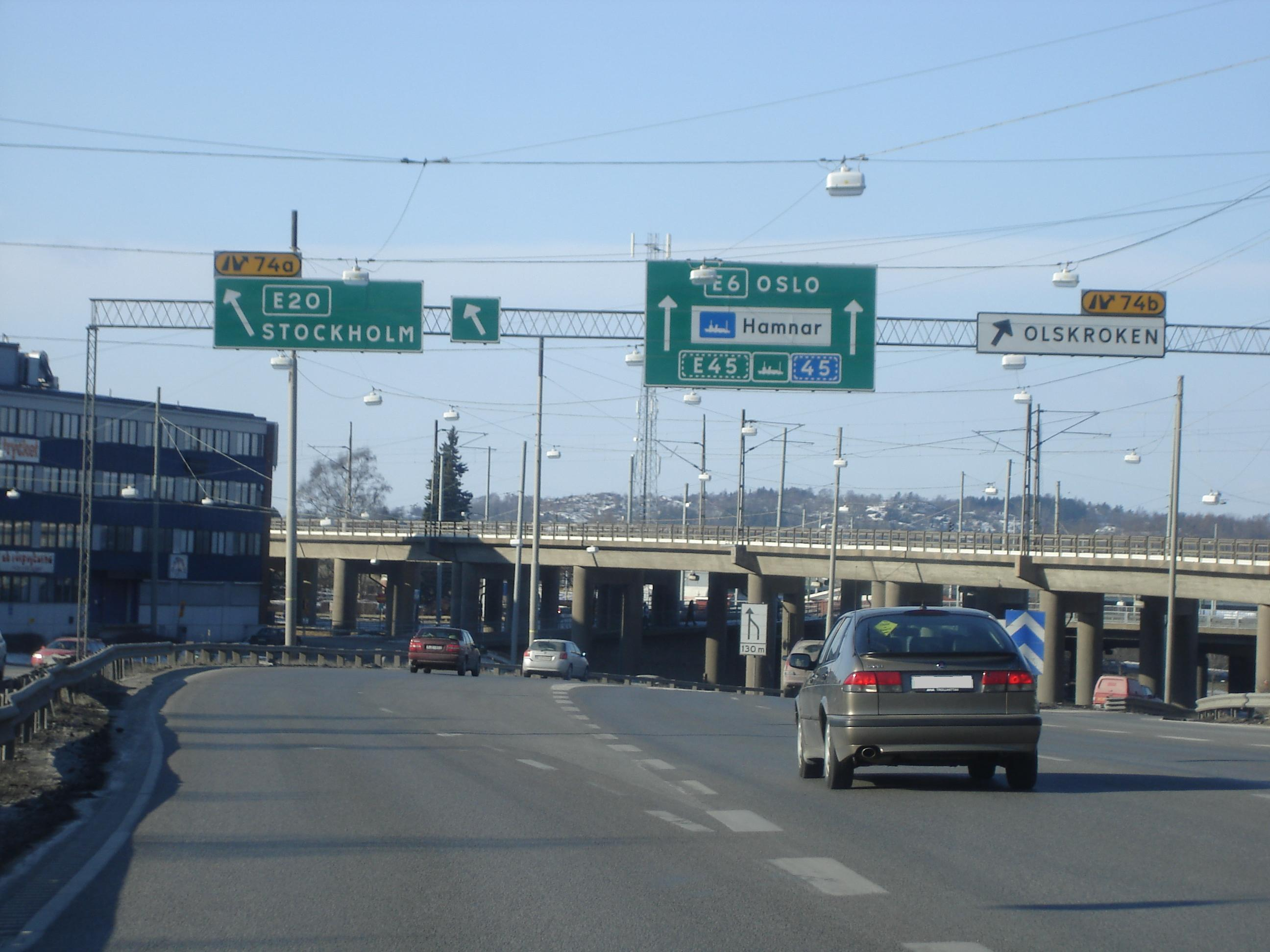 European routes E6 and E20, south part of the Olskrok Junction (Olskroksmotet) in Gothenburg, Sweden